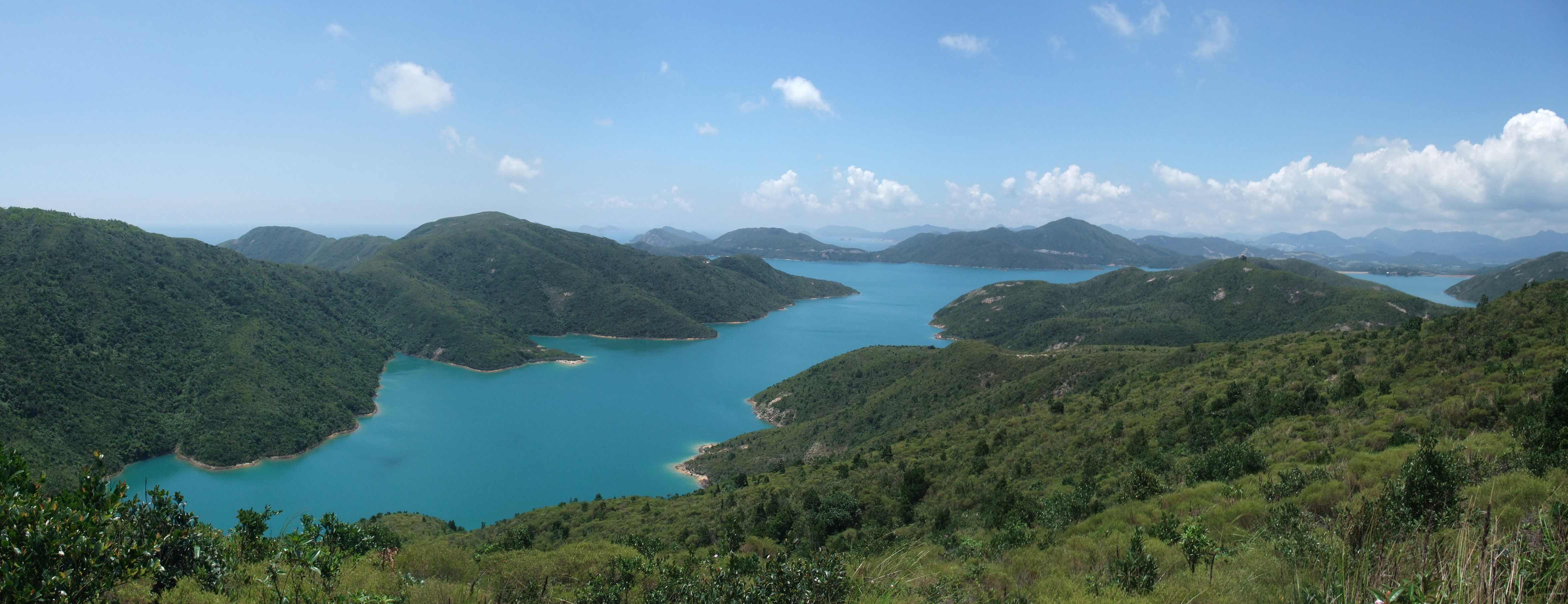 Panoramic photo of High Island Reservoir, combined from 2773720180, 2772881163, 2772888725 and 2773742640